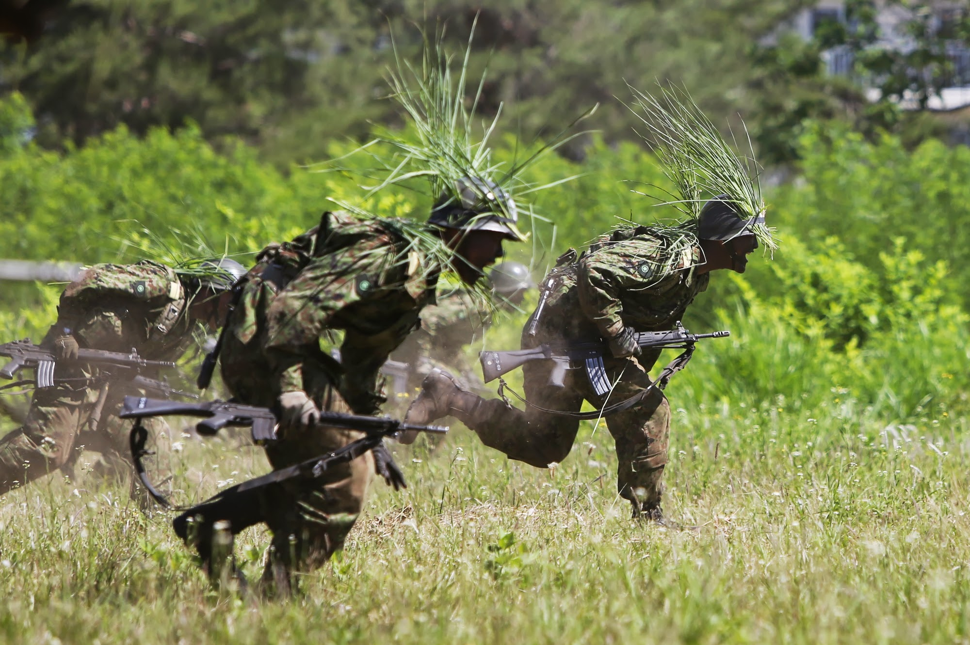 Title ⑫「早駆け！」.jpg Album 教育訓練等 自衛官候補生・戦闘訓練（第２０普通科連隊・神町）